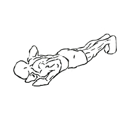 an exercise of chest and triceps